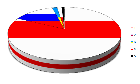 Ethnic composition of Witsebsk province